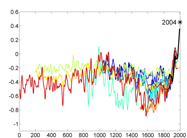 Reconstructed temperatures from the last 2000 years.